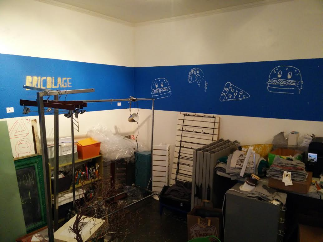 A maker space at Bricolage, a combination crafts store and art gallery in Boise, Idaho.